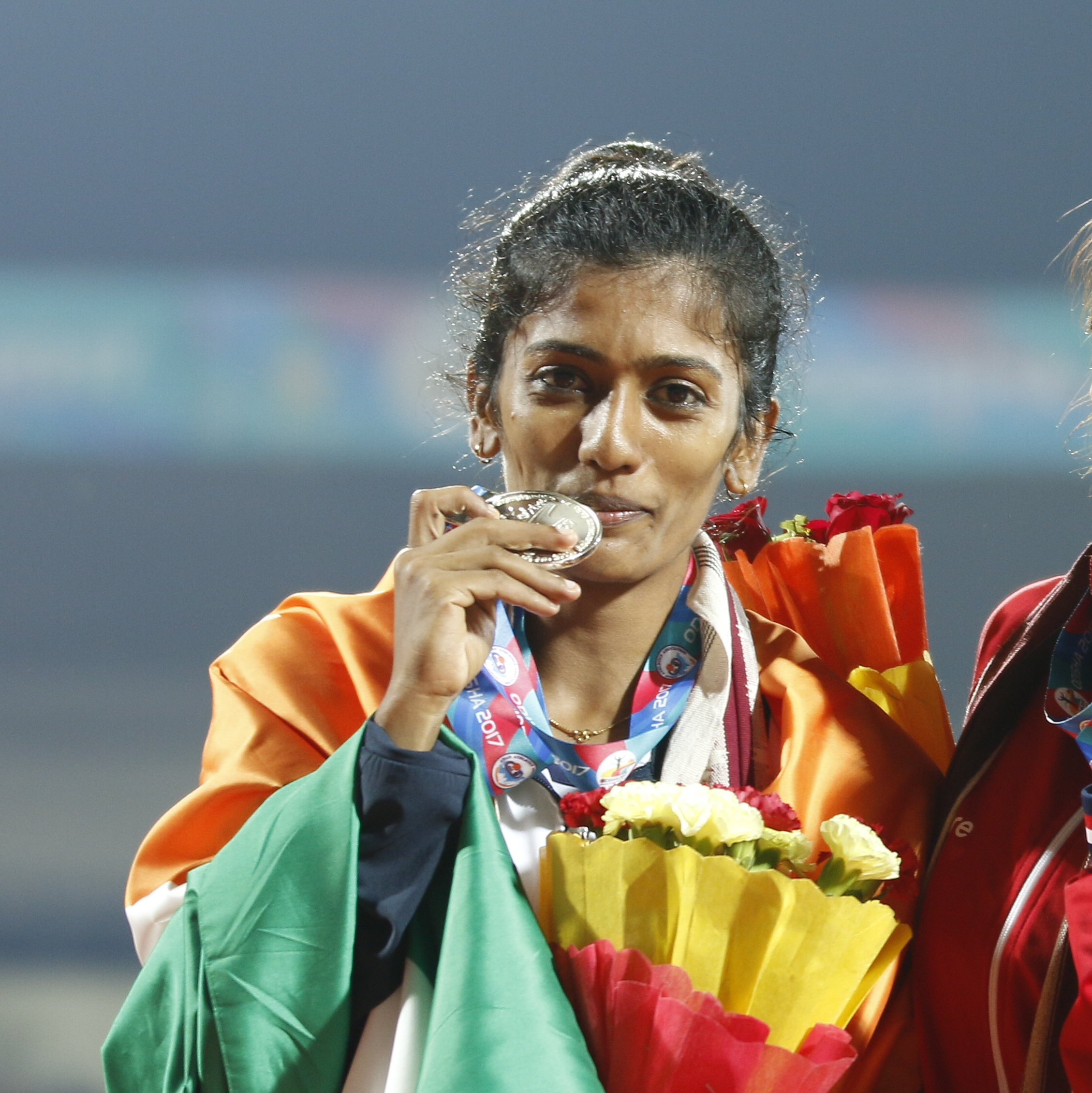 2017 Asian Athletics Championships at the Kalinga Stadium in Bhubaneswar, India